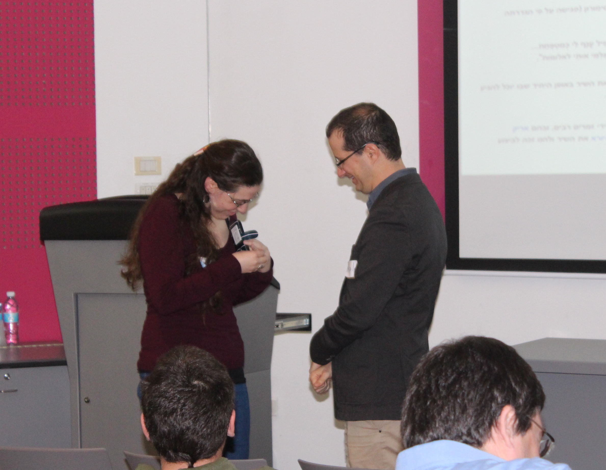 Wikipedia's 14th Birthday celebration. Wikimedian meetups in Israel: January 2015